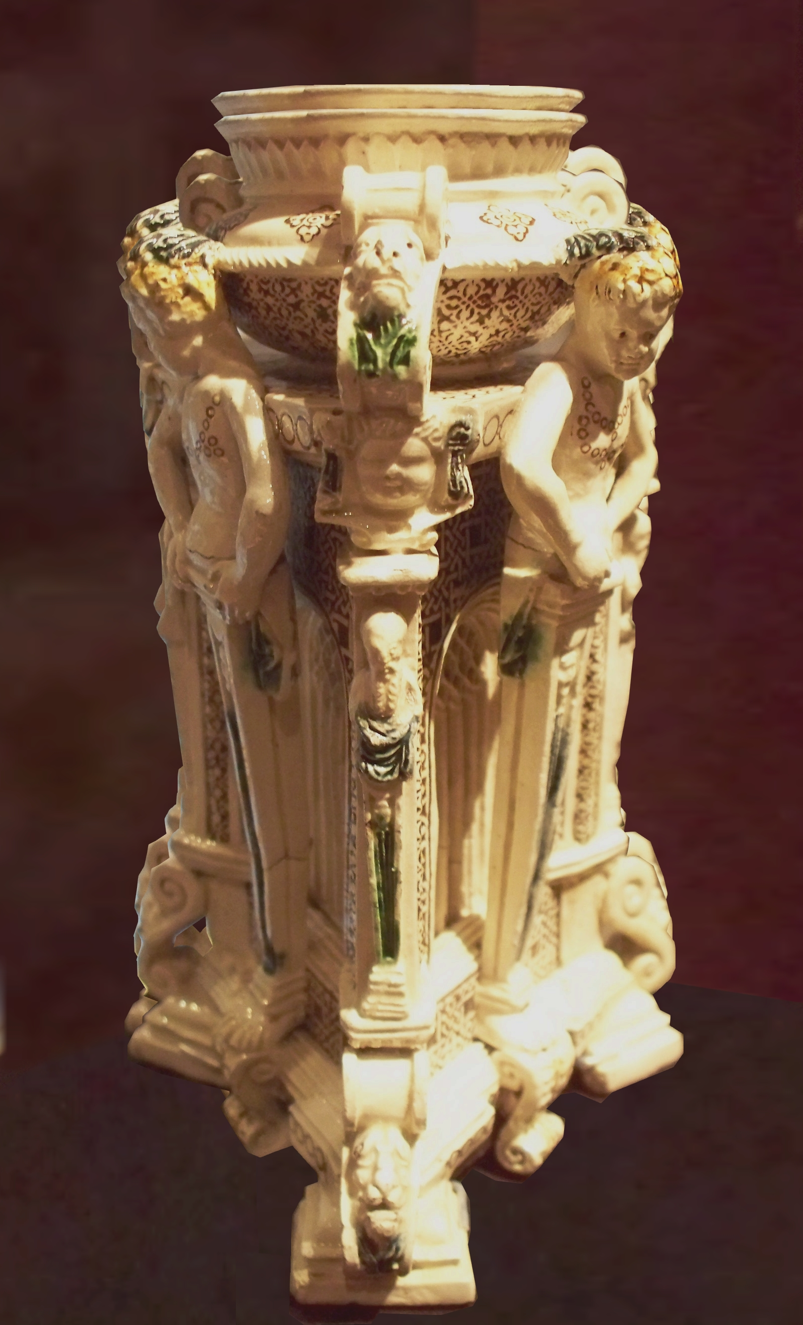 Title: Saint-Porchaire Standing Saltcellar Accession Number: 1931.224 Artist: Philibert de l'Orme and Bernard Palissy (?) Date Completed: ca. 1555 Date Acquired: 1931 Description: H. 6-5/16 in. Inlaid and glazed white ceramic Wikipedia Loves Art at the Taft Museum of Art This photo of item # 1931.224 at the Taft Museum of Art was contributed under the team name "Opal_Art_Seekers_4" as part of the Wikipedia Loves Art project in February 2009. Taft Museum of Art The original photograph on Flickr was taken by Forever Wiser—please add a comment to the original Flickr page whenever a use has been made on Wikipedia or another project. Project galleries on Flickr: this institution, this team